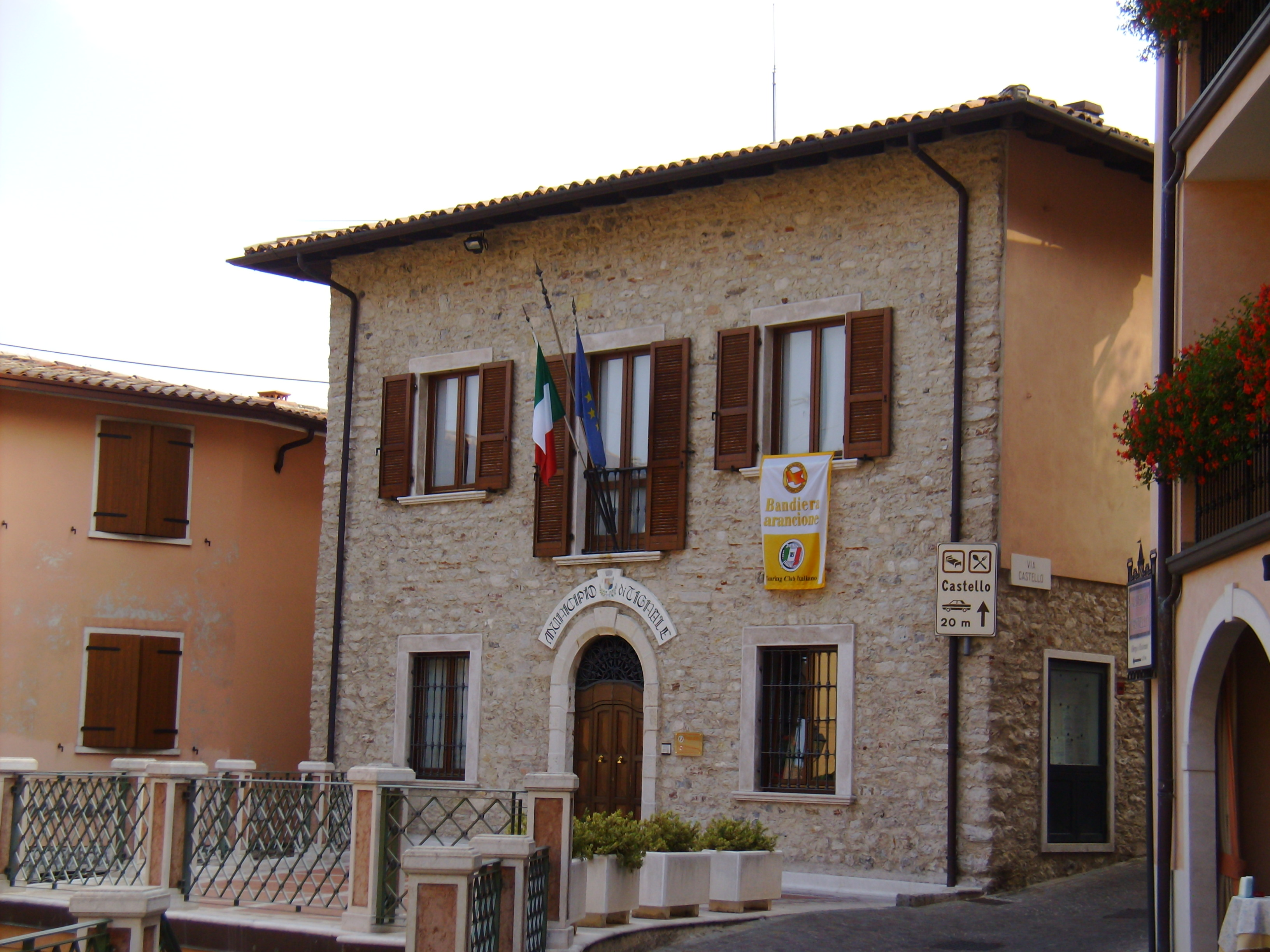 The town hall of Tignale (BS), Lake Garda